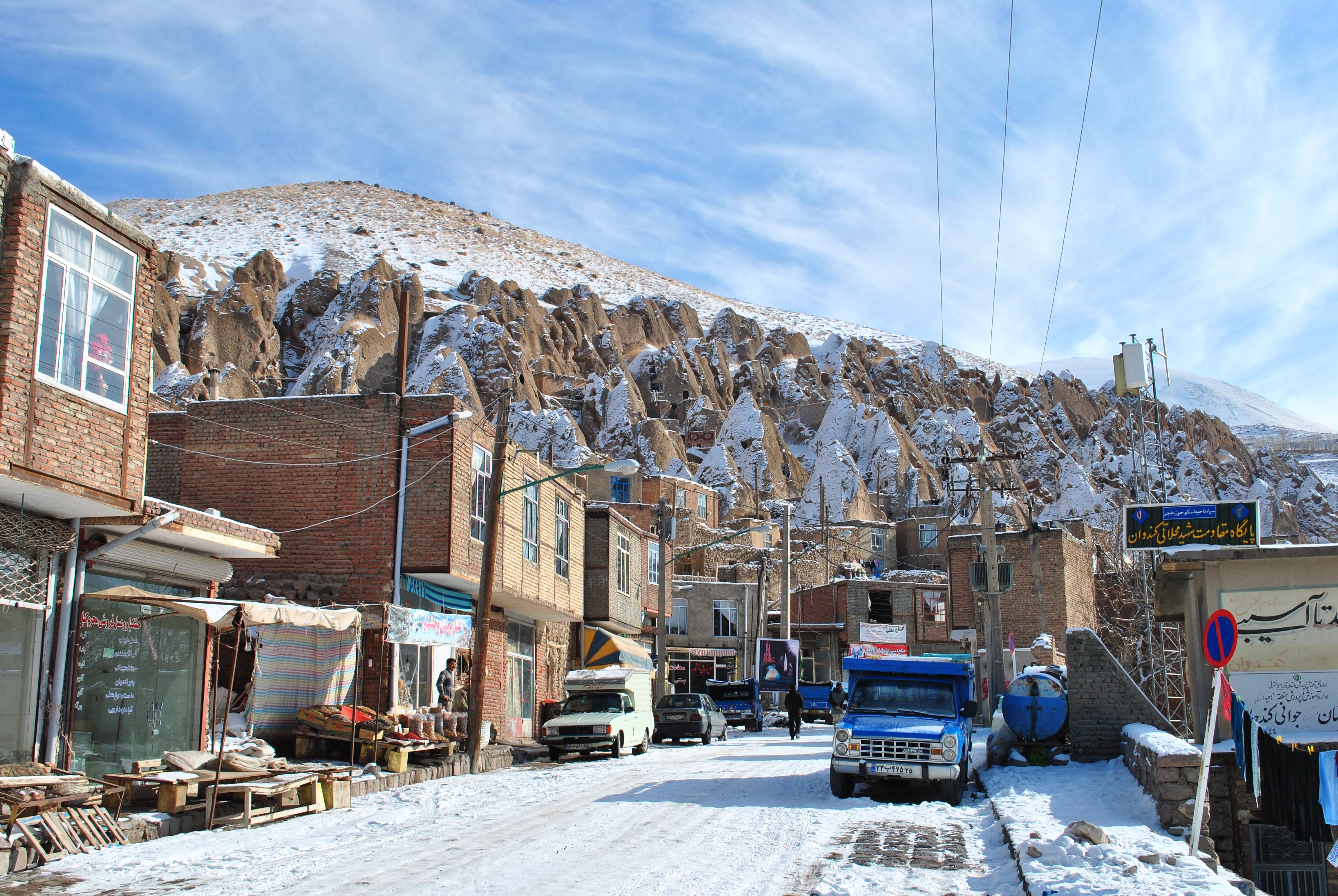 Own work